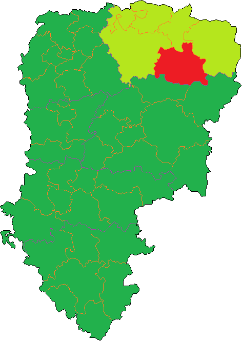 Map of Roman catholic diocese of Soissons